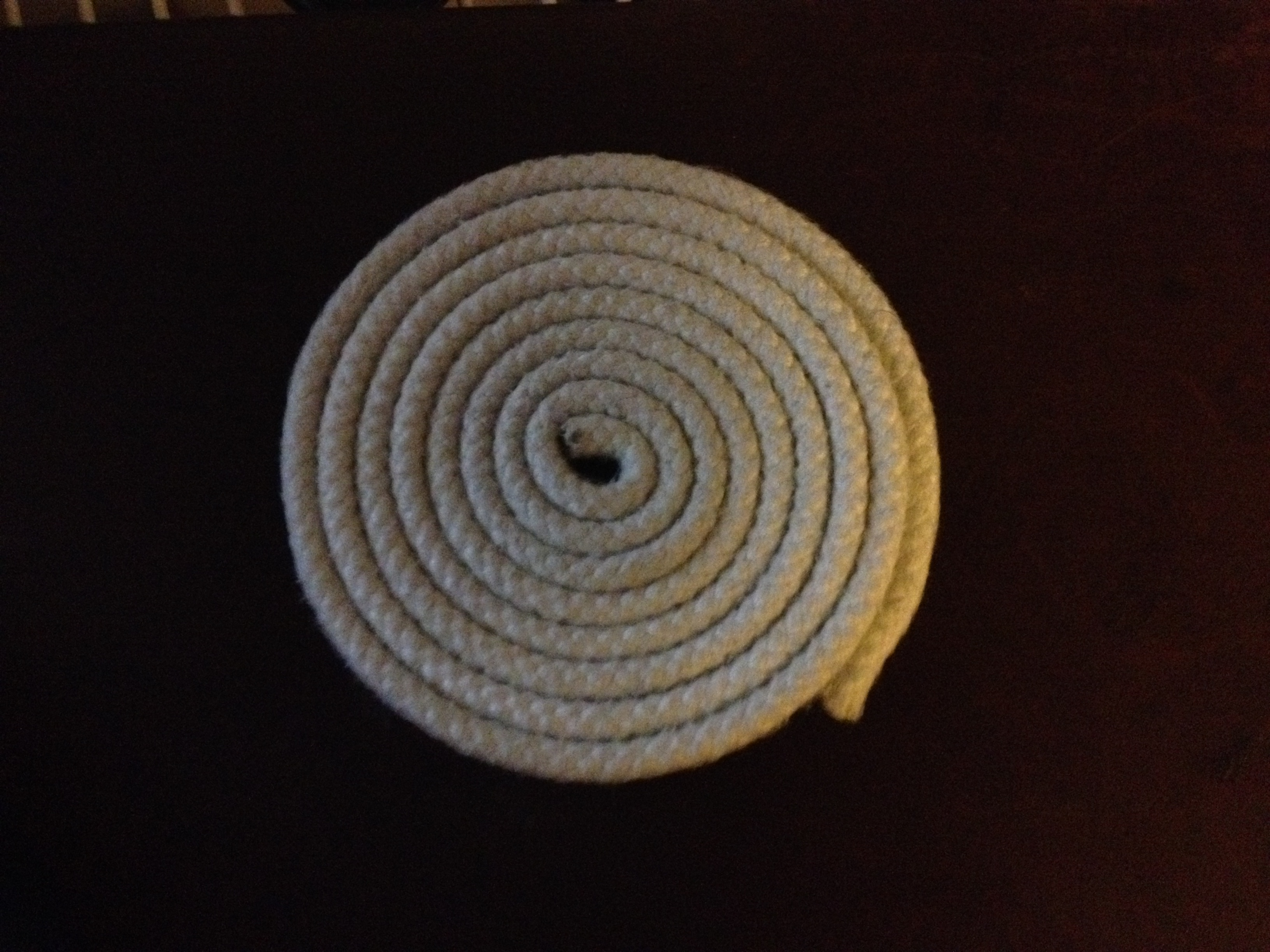 Spiral coil